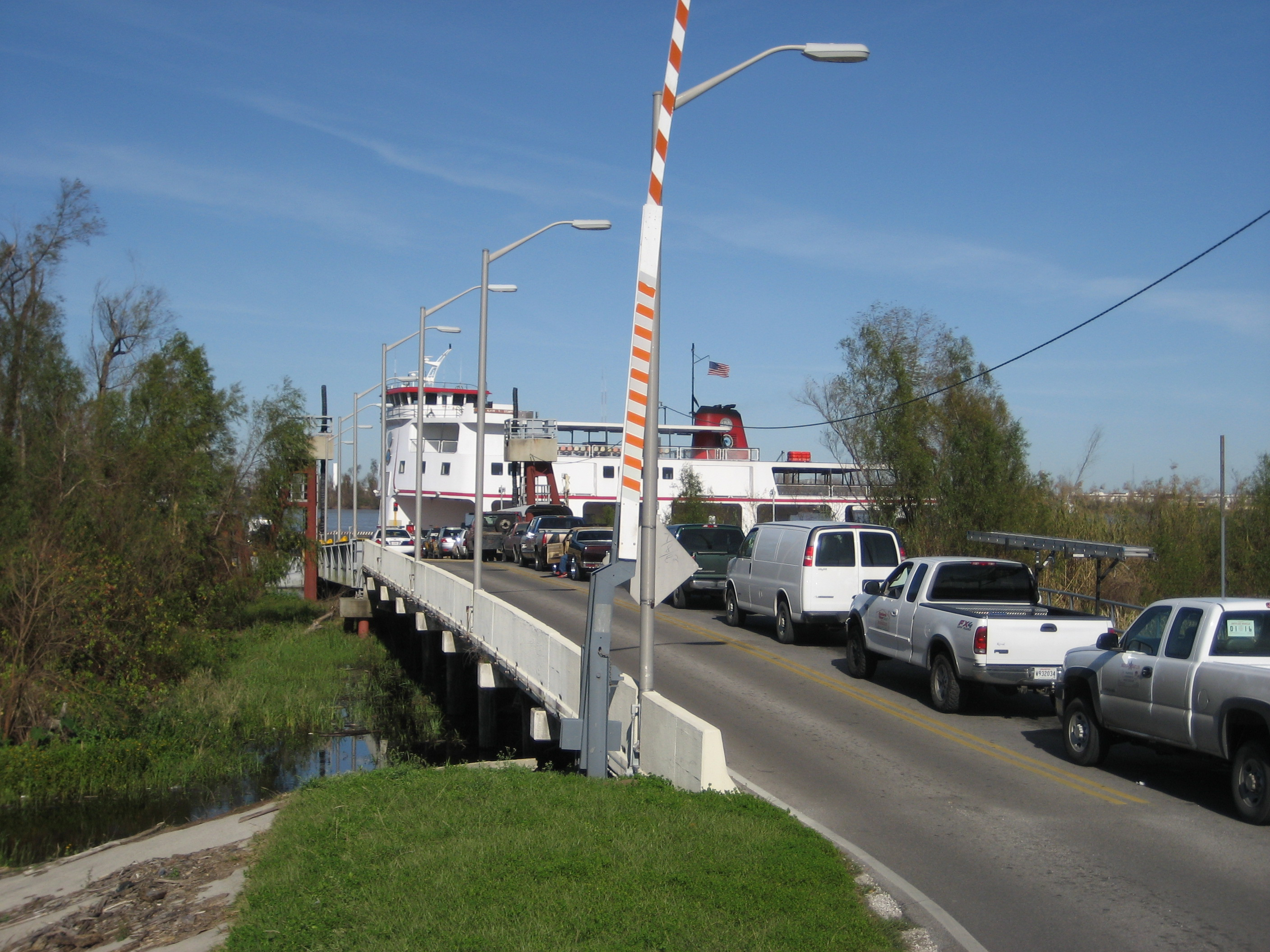 Chalmette to Lower Algiers Ferry across the Mississippi River. Autos lined up to board ferry boat on Algiers side.